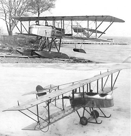 1915 Verville's first plane